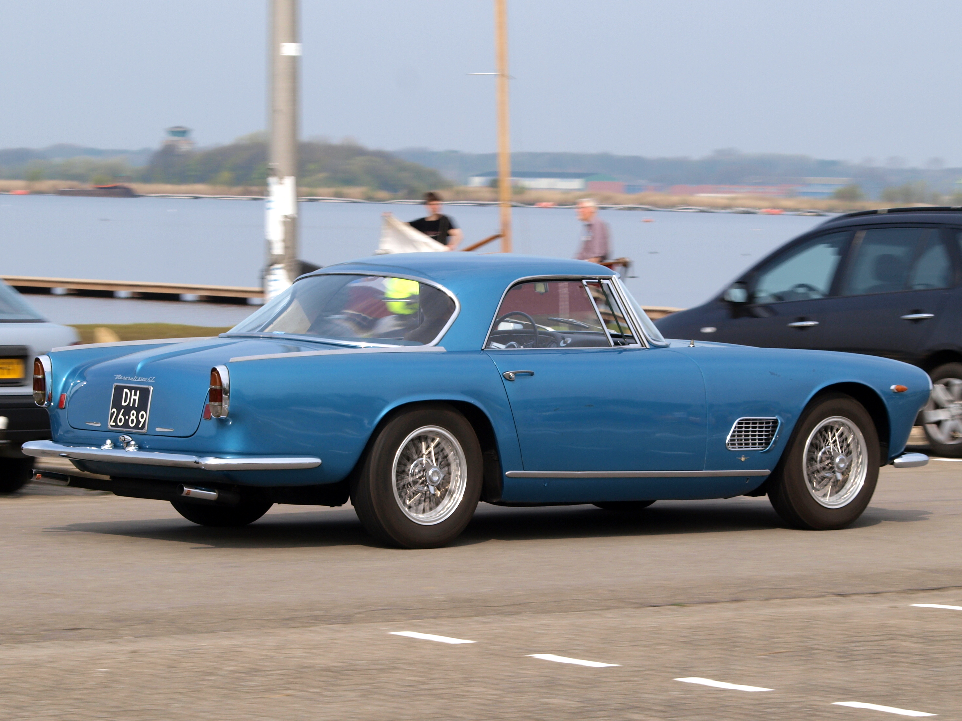 Cars and motorcycles photographed at the Voorschotense Oldtimer Vereniging Show, Valkenburgse meer, The Netherlands. OLYMPUS DIGITAL CAMERA